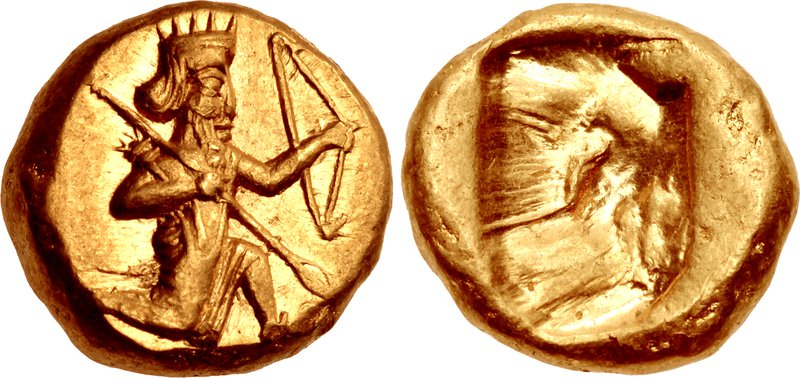 PERSIA, Achaemenid Empire. temp. Darius I to Xerxes II. Circa 485-420 BC. AV Daric (15mm, 8.38 g). Lydo-Milesian standard. Sardes mint. Persian king or hero, wearing kidaris and kandys, quiver over shoulder, in kneeling-running stance right, holding spear in right hand, bow in left / Incuse punch. Carradice Type IIIb, Group A/B (pl. XIII, 27); Meadows, Administration 321; BMC Arabia pl. XXIV, 26; Sunrise 24. Superb EF.